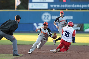 Dwayne Kemp (left) trying to tip off an opponent.